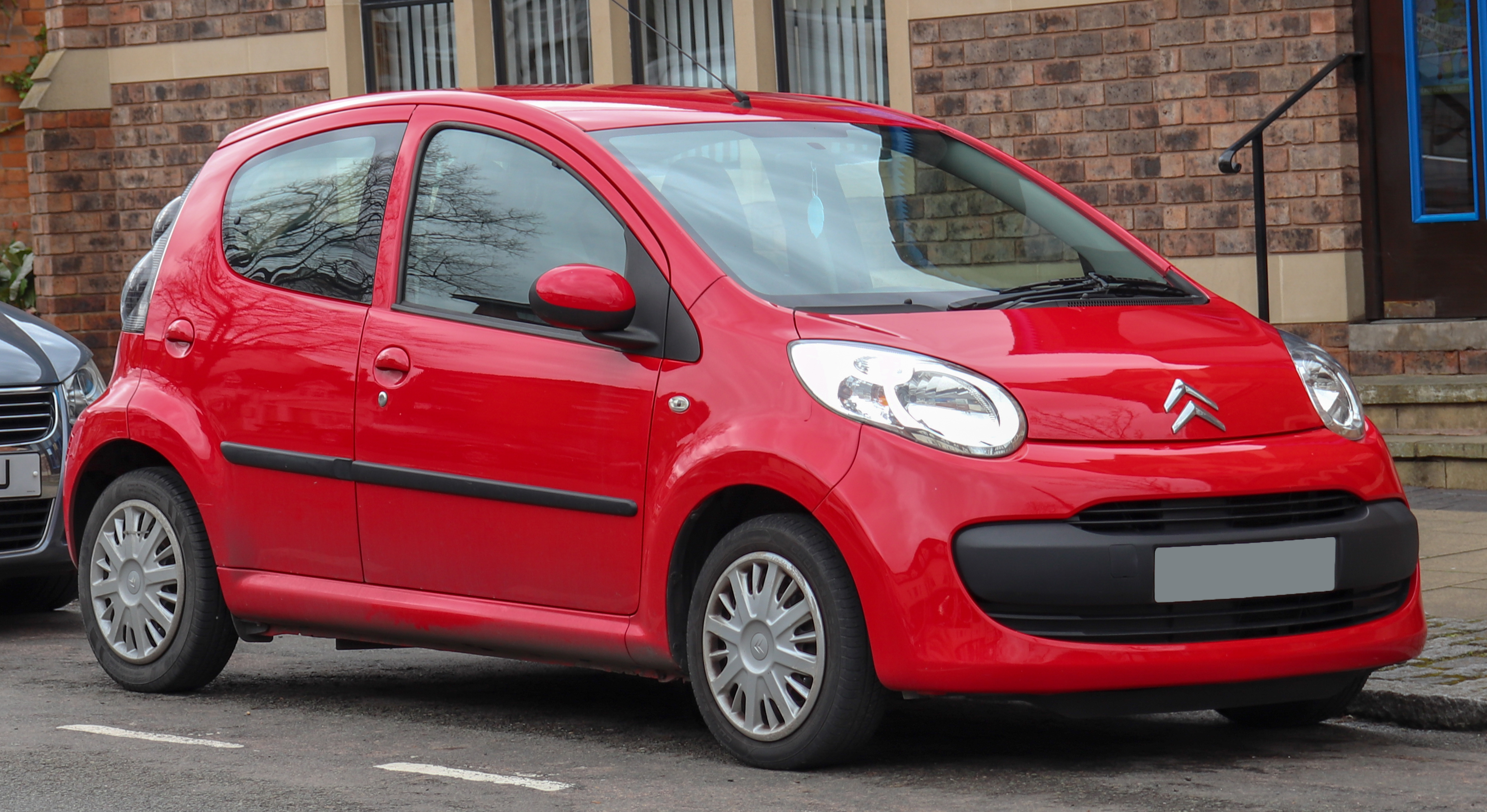 2008 Citroen C1 Rhythm 1.0 Front Taken in Warwick